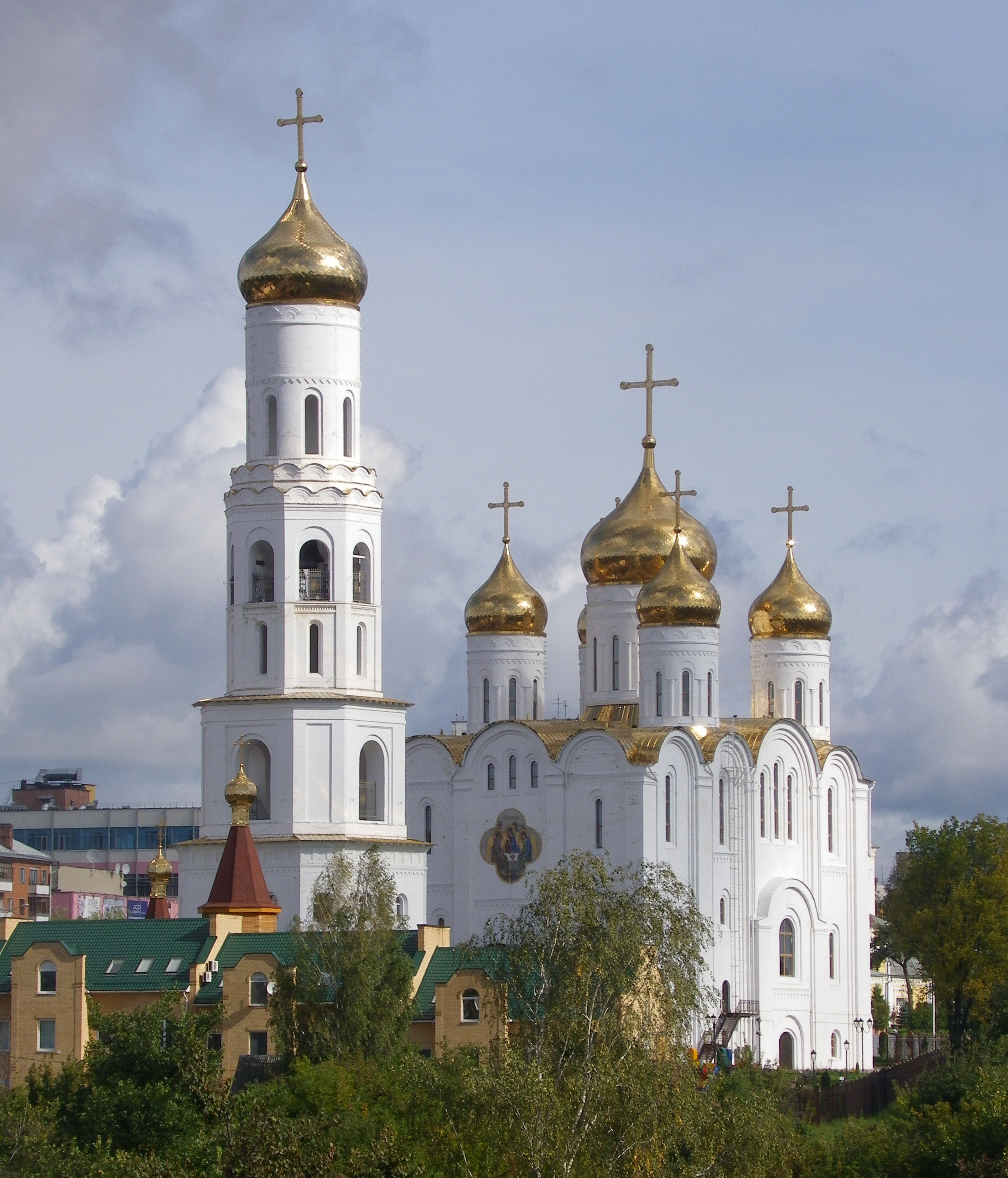 The Trinity Cathedral in Bryansk, Russia